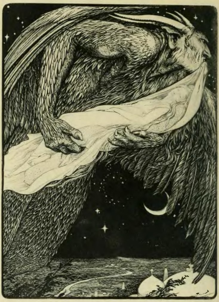 from p010 of the djvu file